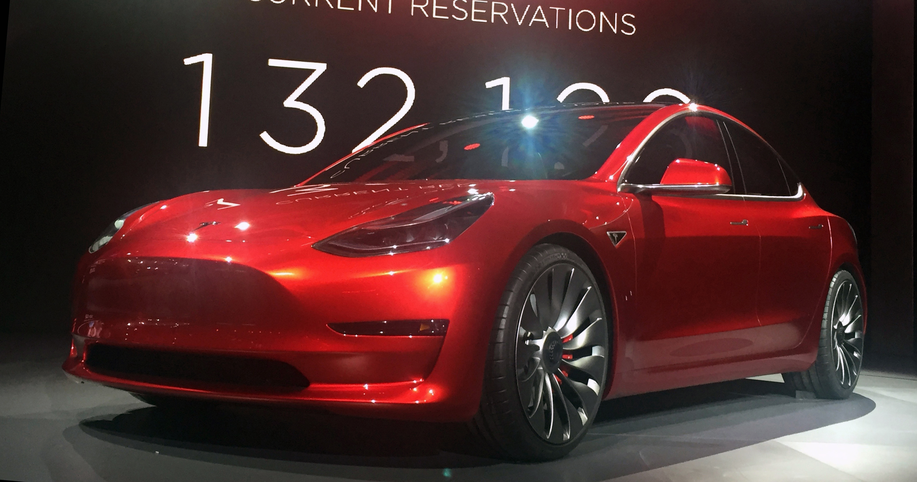 Red Tesla Model 3 at the March 31, 2016, unveiling event, Hawthorne, California.